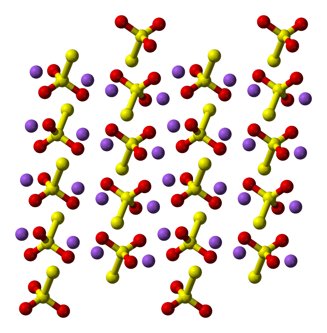 Ball-and-stick model of part of the crystal structure of anhydrous sodium thiosufate, Na2[S2O3]. X-ray crystallographic data from Acta Cryst. (1961). 14, 237-243. Model constructed in CrystalMaker 8.1. Image generated in Accelrys DS Visualizer.